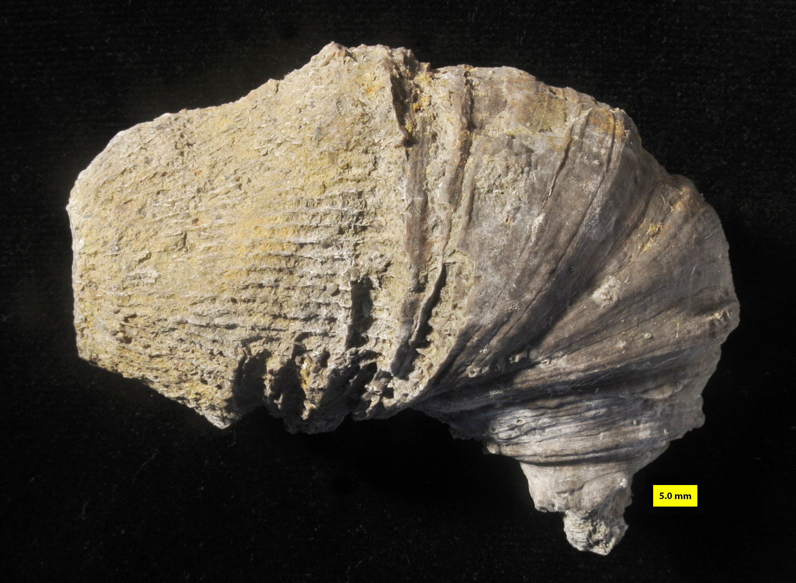 Heliophyllum halli, a rugose coral from the Centerfield Limestone Member (Middle Devonian), Bethany Center, New York.